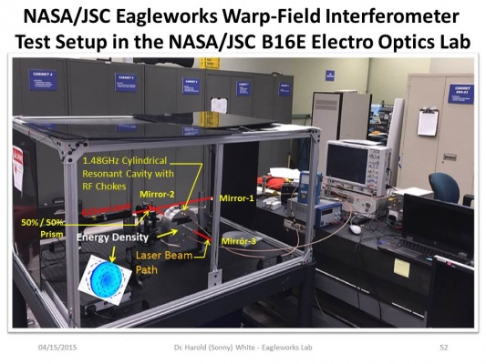 Eagleworks Warp-field Interferometer Test Set Up